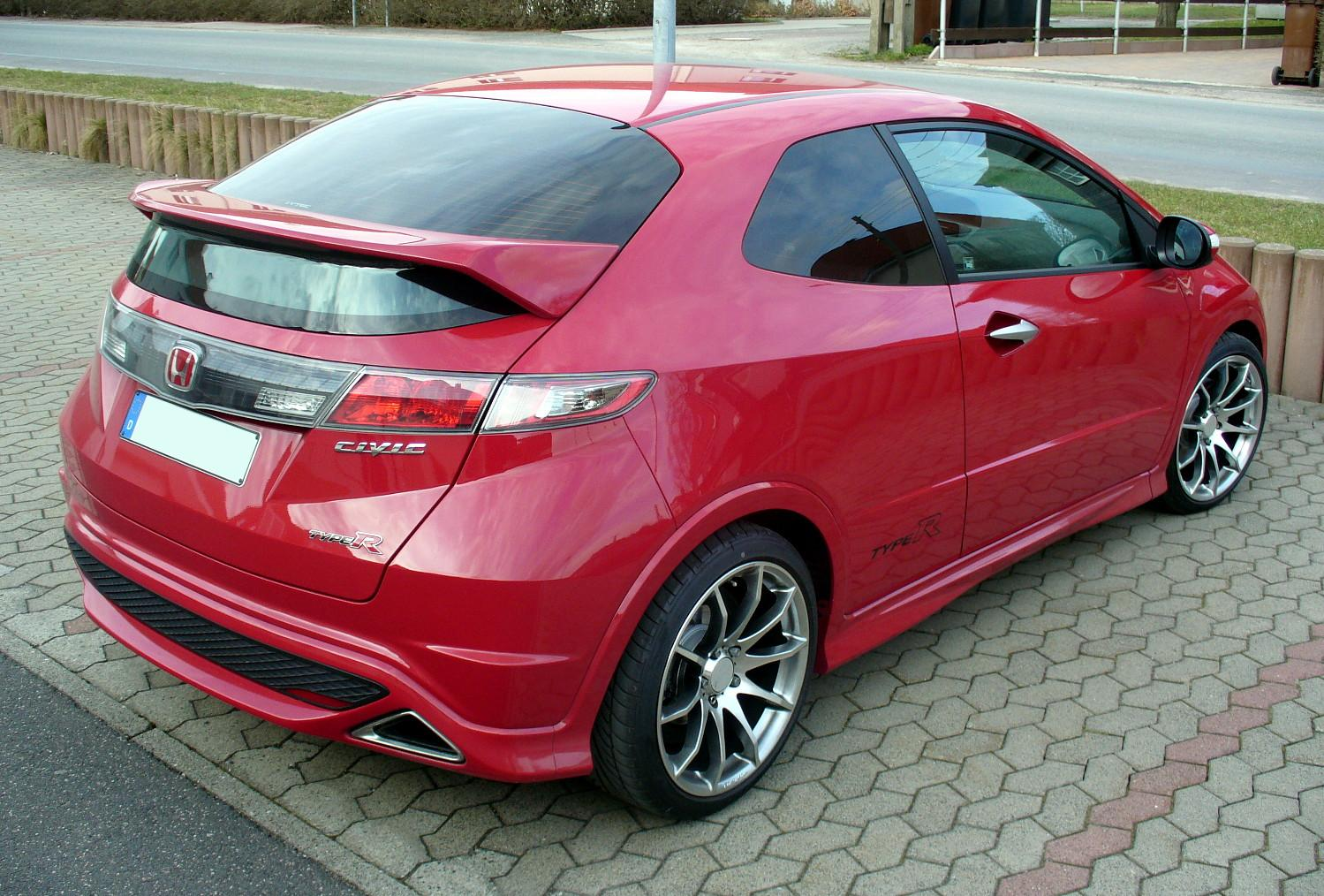 Honda Civic Type R